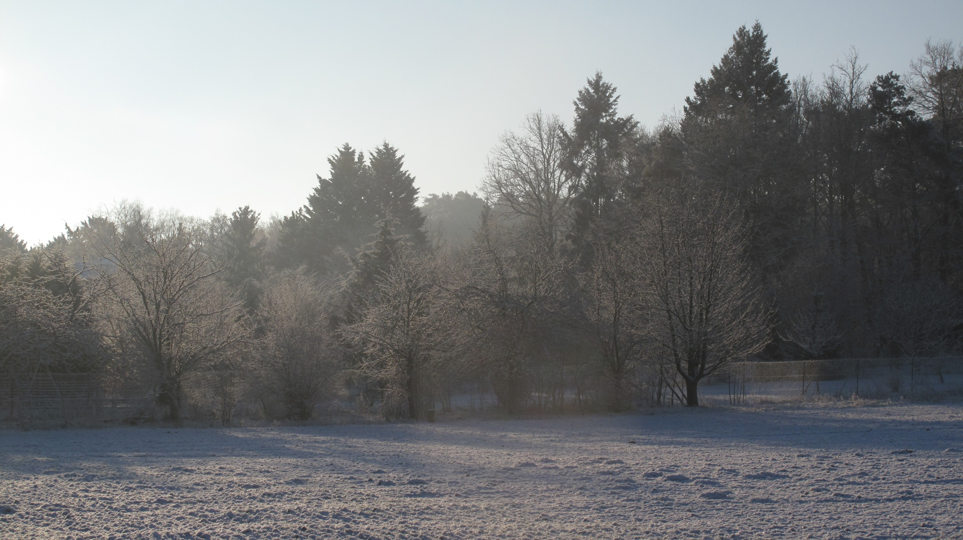 Winter forest near Larchant - Ile-de-France